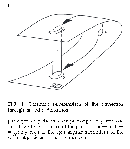 quantum entanglement